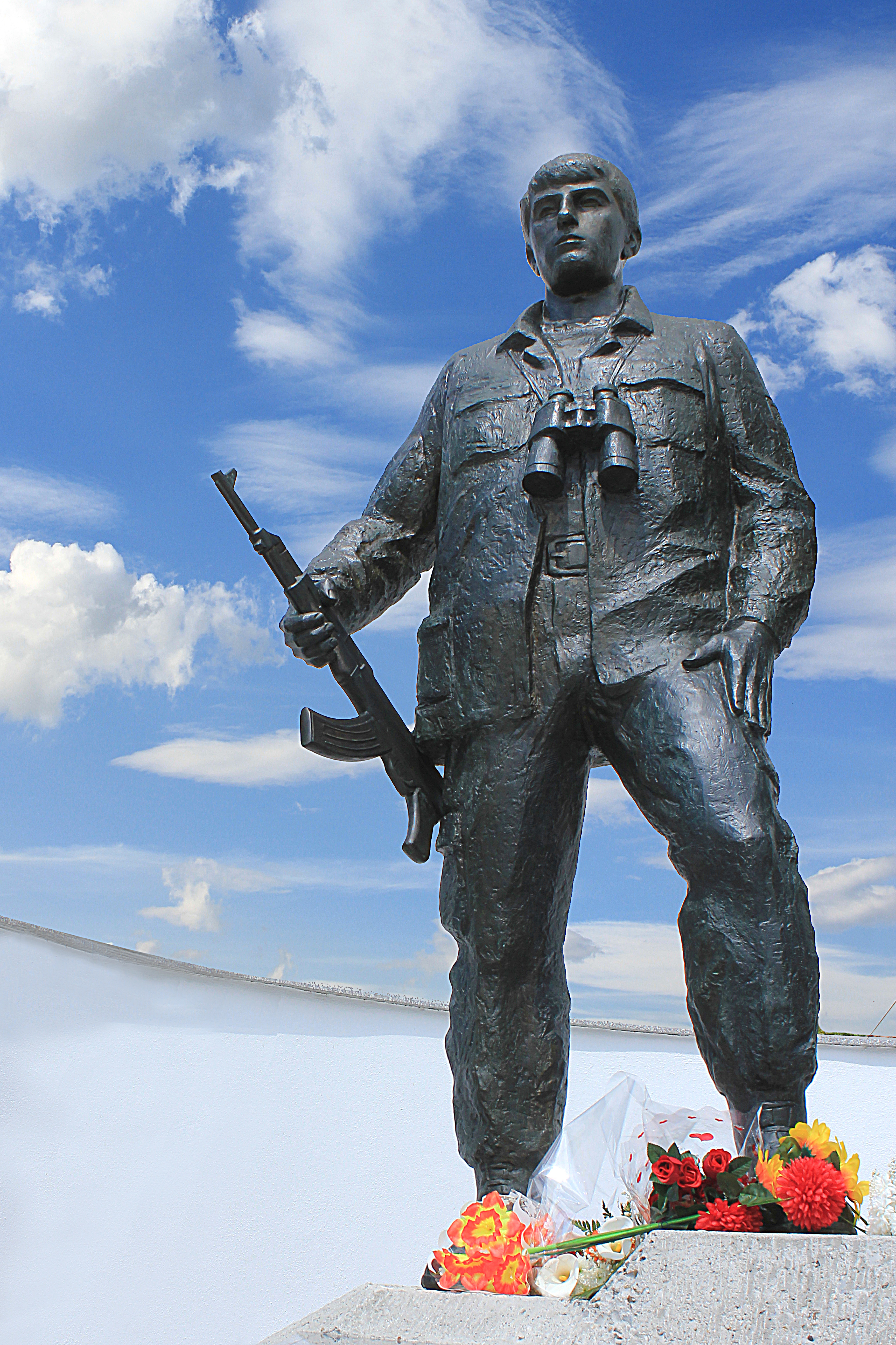 Statue of Hero of Kosovo Hakif Zejnullahu in the village of Lladovc, Podujevë.